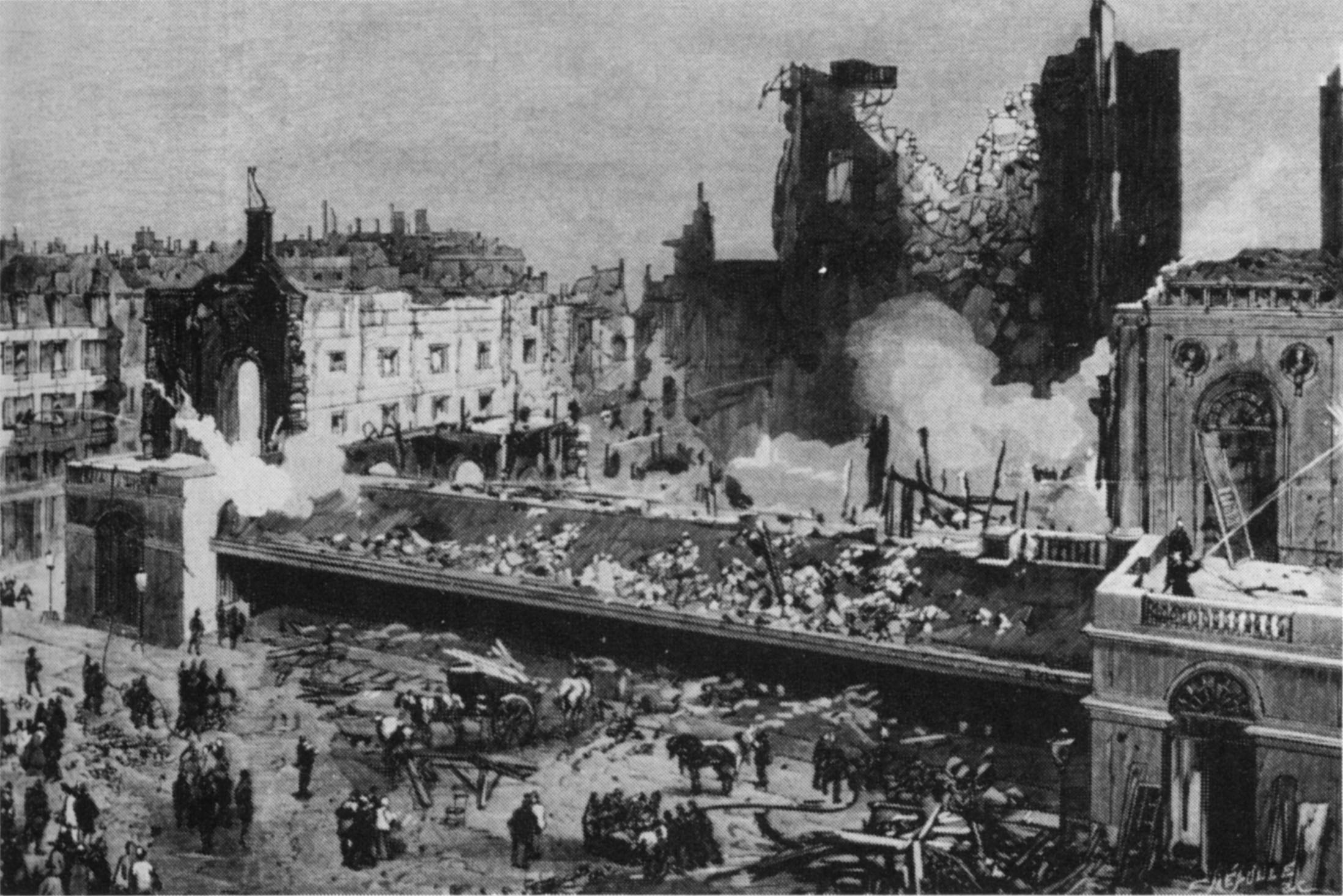 View of the ruins of the Paris Opera's Salle Le Peletier after the fire of 28–29 October 1873 as published in Le Monde Illustré